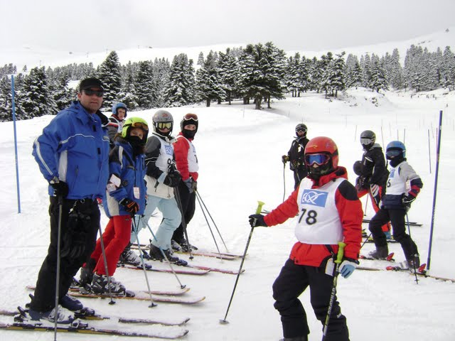 Ski mountaineers from Steiri, Boeotia, Greece in Parnassos mountain